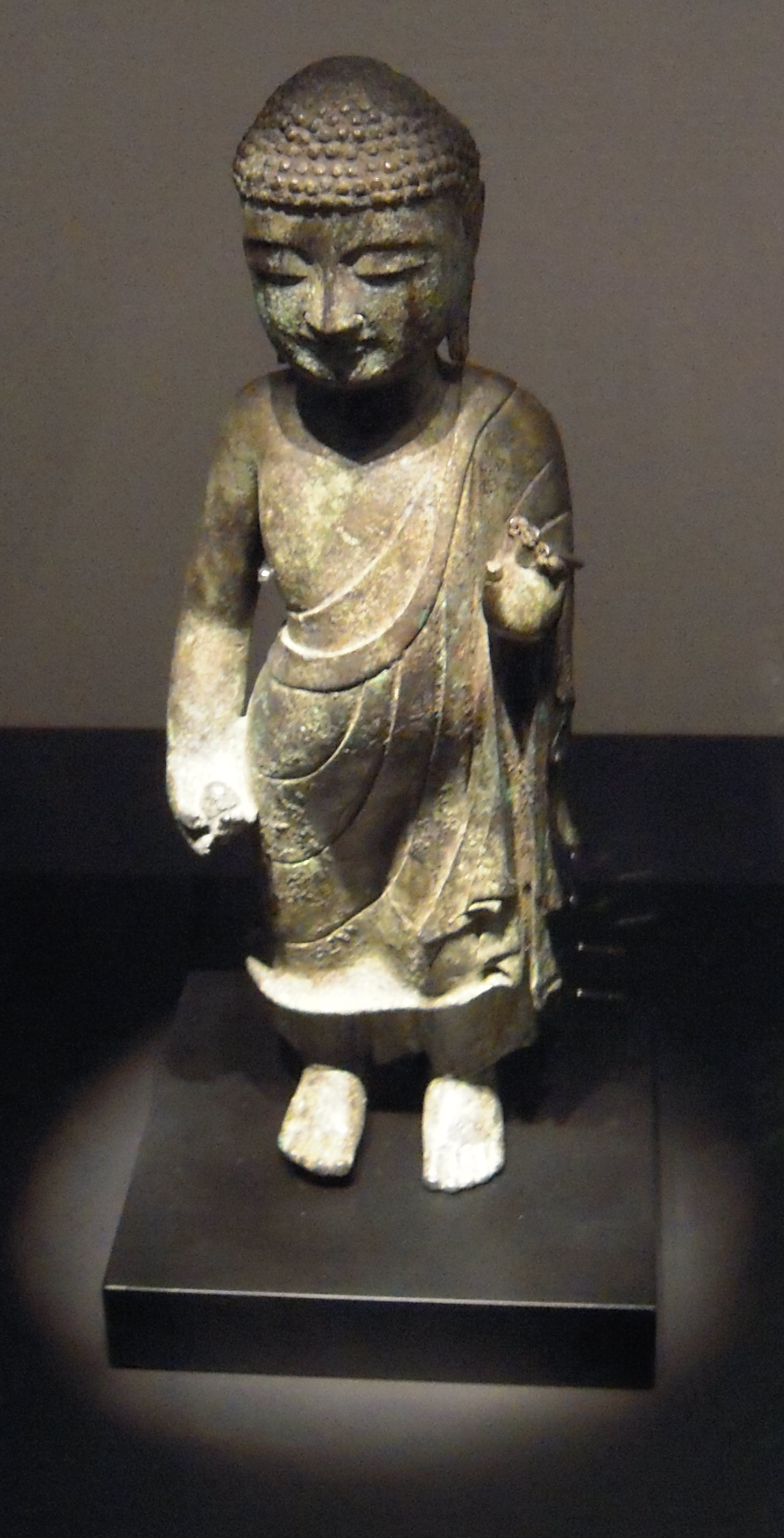 Stone. Three Kingdoms Period, 7th c. (National Treasure No. 1327.) From another visit to the National Museum of Korea. Seoul, South Korea.